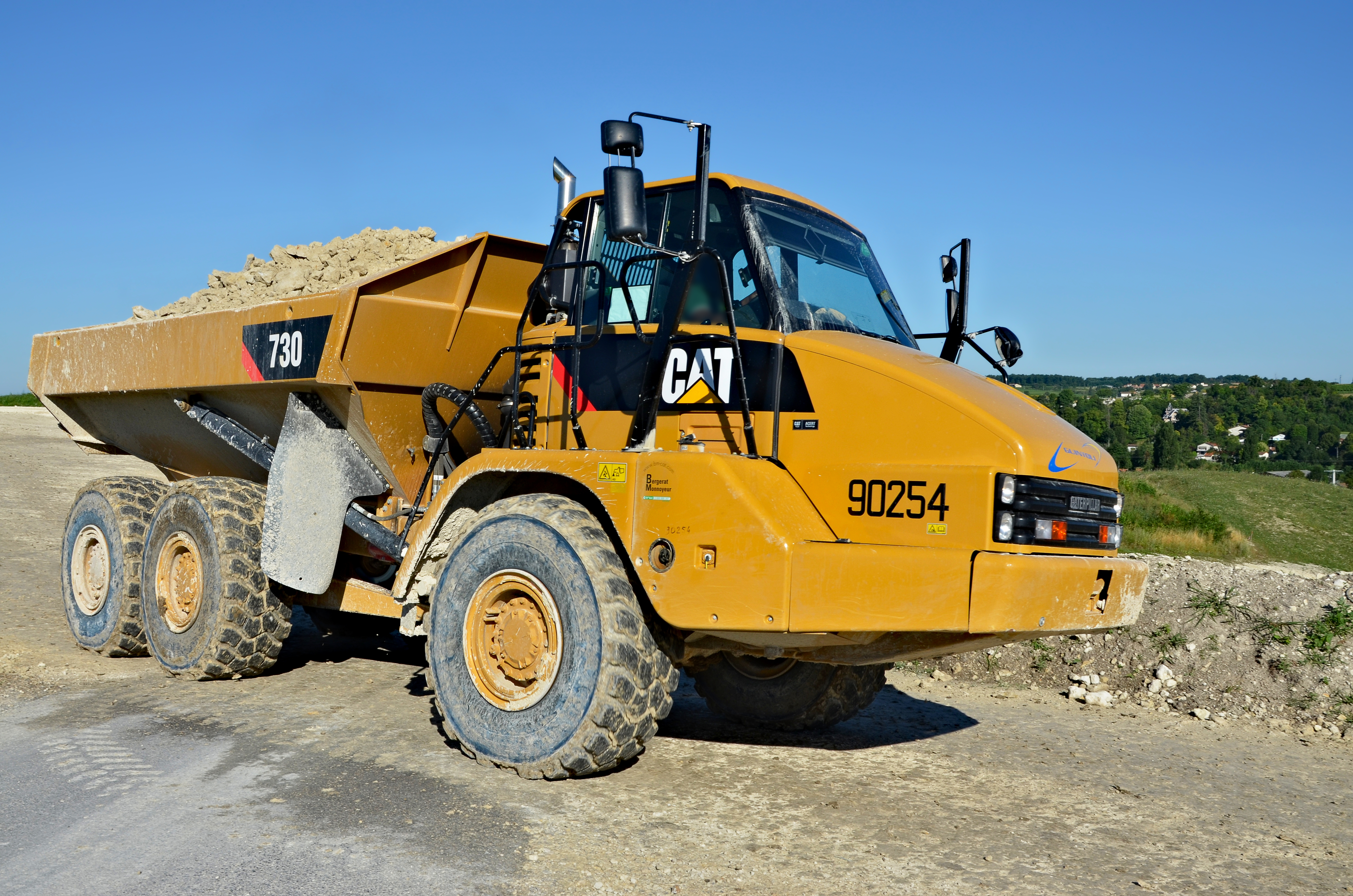 Caterpillar 730 Articulated Dump Truck, Blanzac, Charente France.